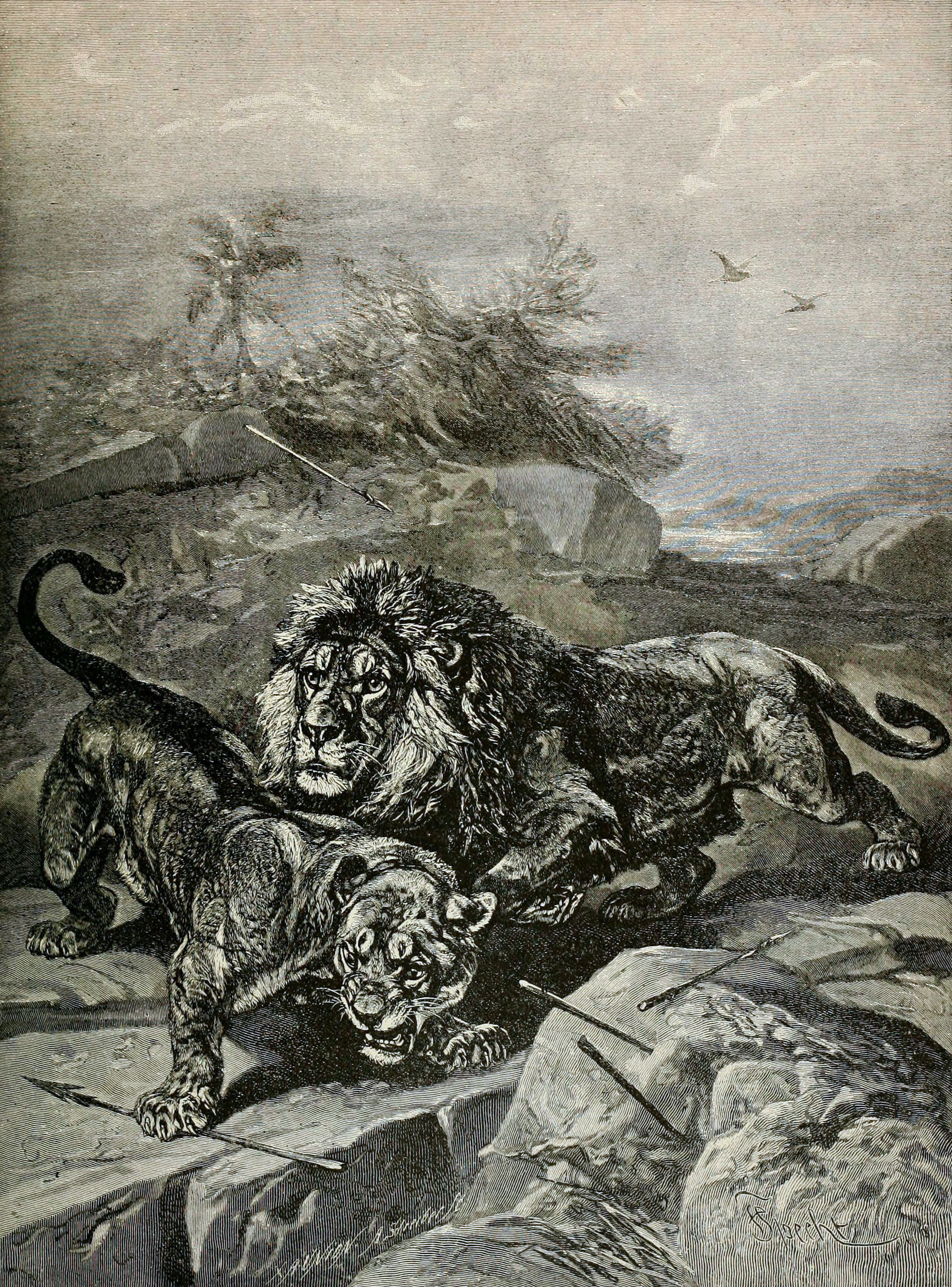 Male and female Barbary lions.